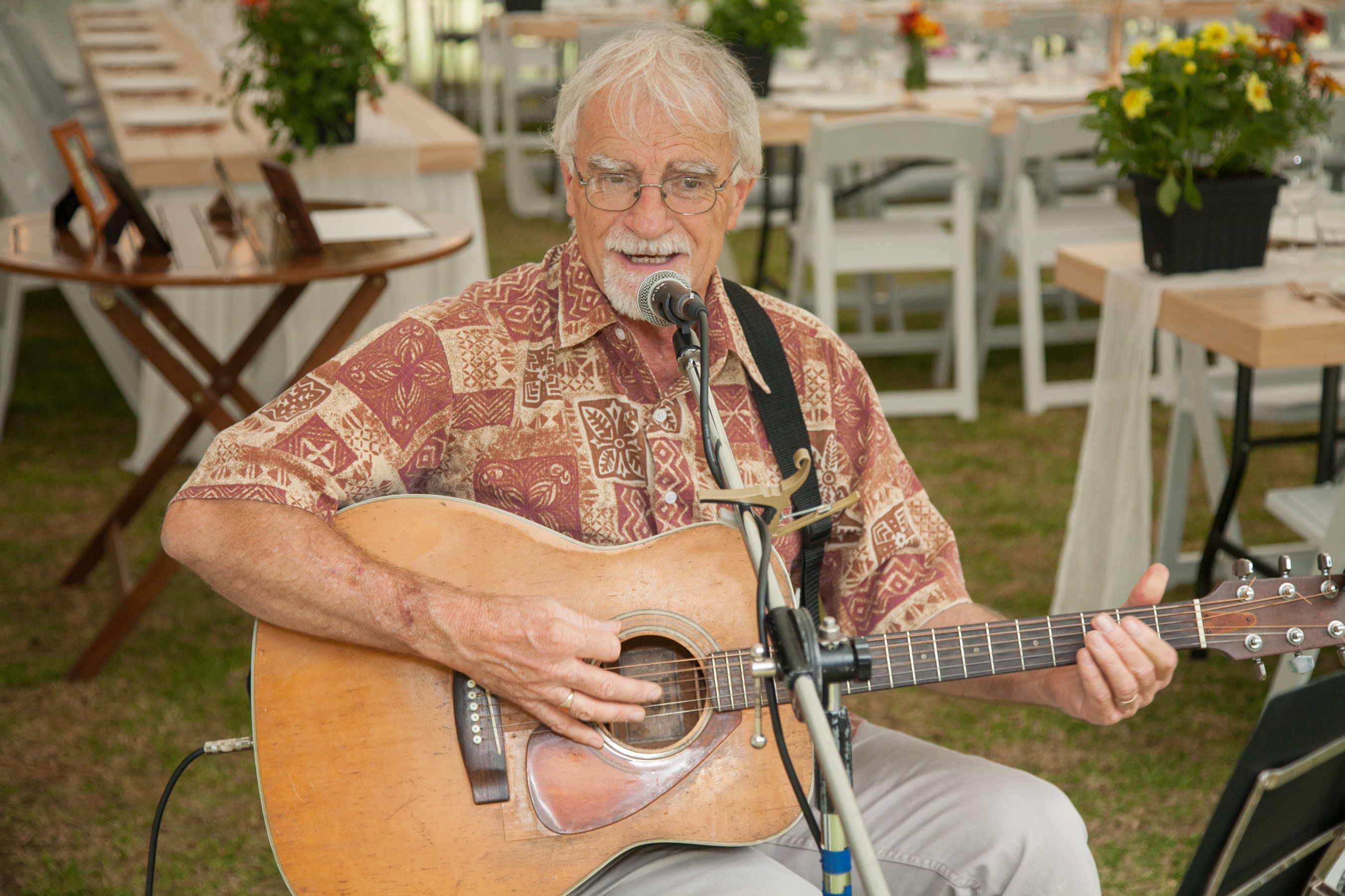 Mike Harding playing a performance at the uploader's wedding in Coromandel, 2018.